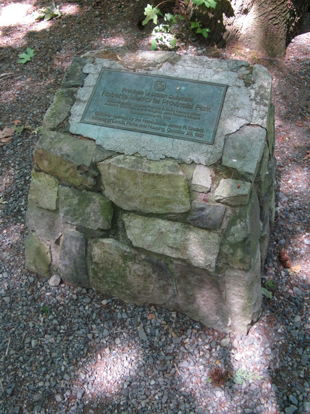 Photographed by Adam Walker on July 10th, 2008, within the park boundaries of Roberts Memorial Provincial Park. Any reproduction of any kind is permissible by Adam Walker.